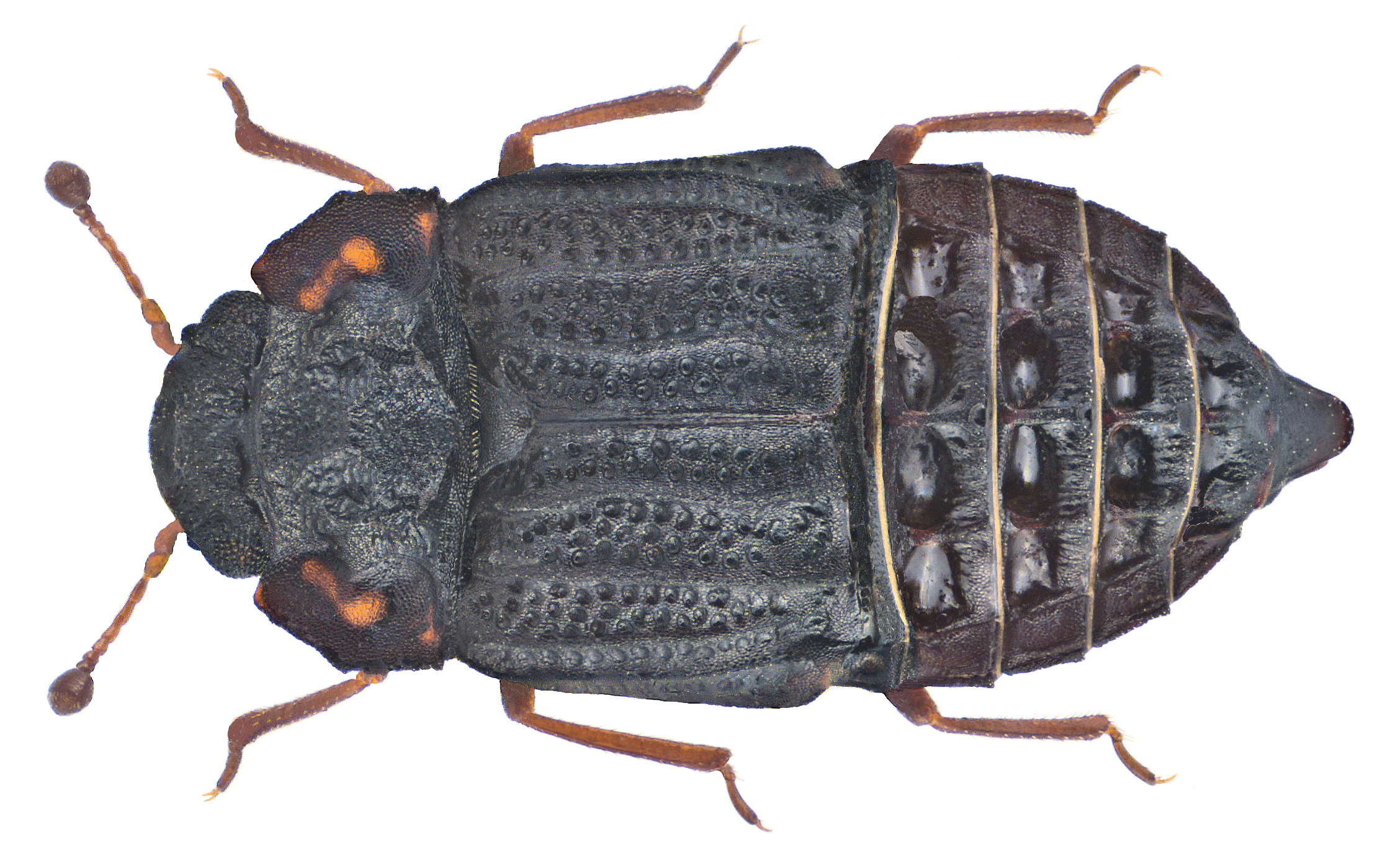 Family: Staphylinidae (Micropeplidae) Size: 2,3 mm (2,2 to 2,4 mm) Distribution: palaearctic Ecology: in decaying vegetable matter Location: Germany, Bavaria, Upper Franconia, Kulmbach, Wickenreuth leg.det. U.Schmidt, 16.VI.1975 Photo: U.Schmidt, 2015